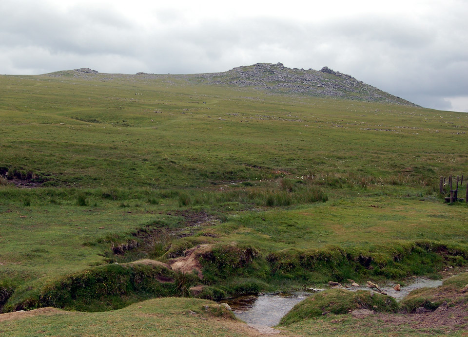 Photograph of Rough Tor in Cornwall, UK Taken by me in 2005